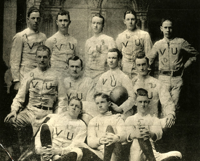 1890 Vanderbilt Commodores football team. Elliott Jones holds the football. Top row, left to right: A. Allen, end; P. H. Porter, guard; Pat M. Estes, quarterback; R. Allen, end; R. H. Mitchell, halfback. Second row - Horace E. Bemis, halfback; W. H. Hardin, center rush; Elliott H. Jones (capt.), fullback; B. Knapp, guard. Bottom Row - J. C. Wall, sub.; C. R. Baskerville, tackle; W. W. Craig, tackle. Herman Ruhm also was a sub on this team.